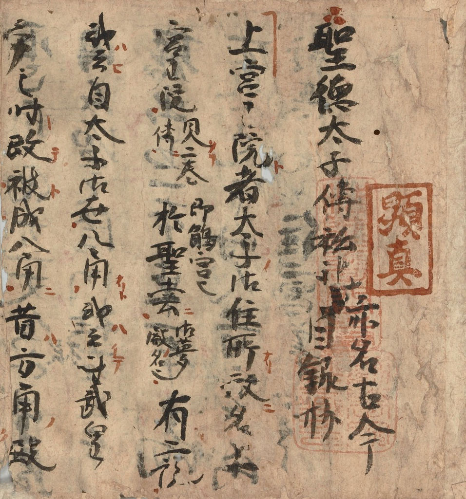 Shotoku Taishi den shiki by Kenshin, Horyuji Treasures N-18, Tokyo National Museum, Japan